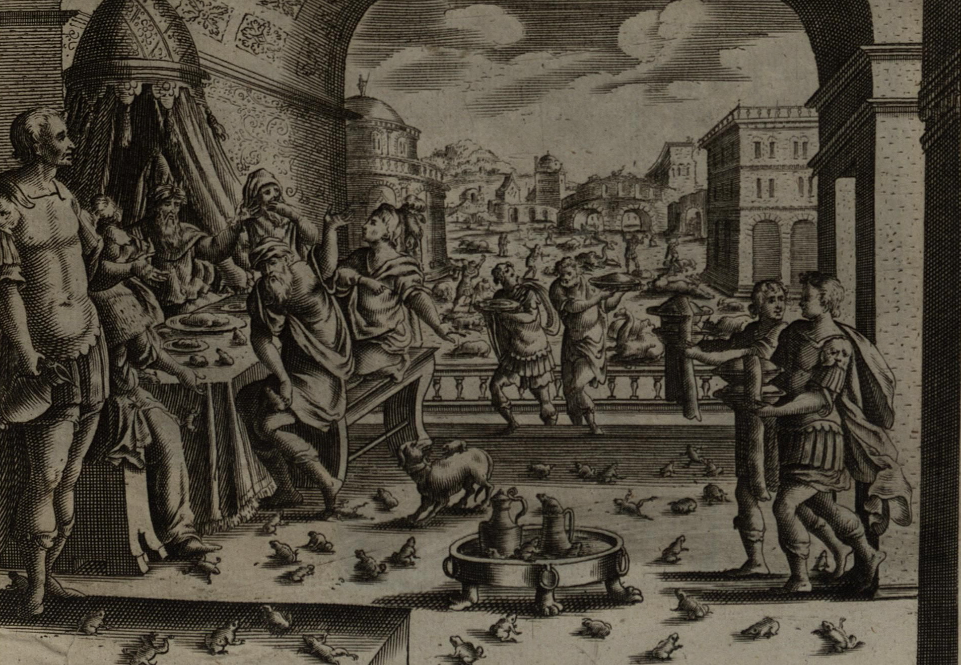 The Plague of Frogs, engraving published in "La Saincte Bible, Contenant le Vieil and la Nouveau Testament, Enrichie de plusieurs belles figures/Sacra Biblia, nouo et vetere testamento constantia eximiis que sculpturis et imaginibus illustrata, De Limprimerie de Gerard Jollain"